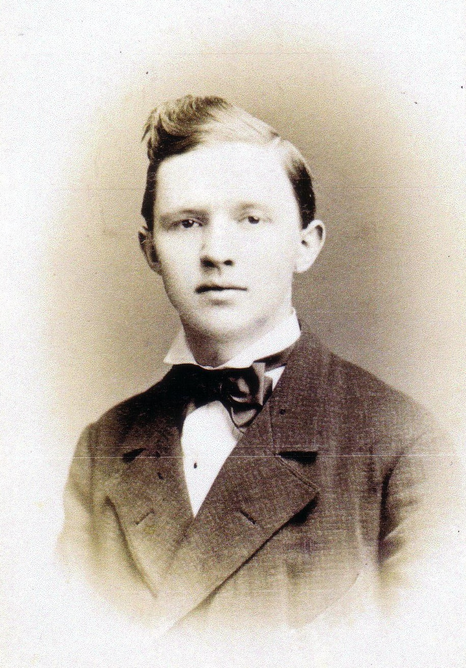 Porträtfotografie von Arthur Barth als Gymnasiast in Pforta